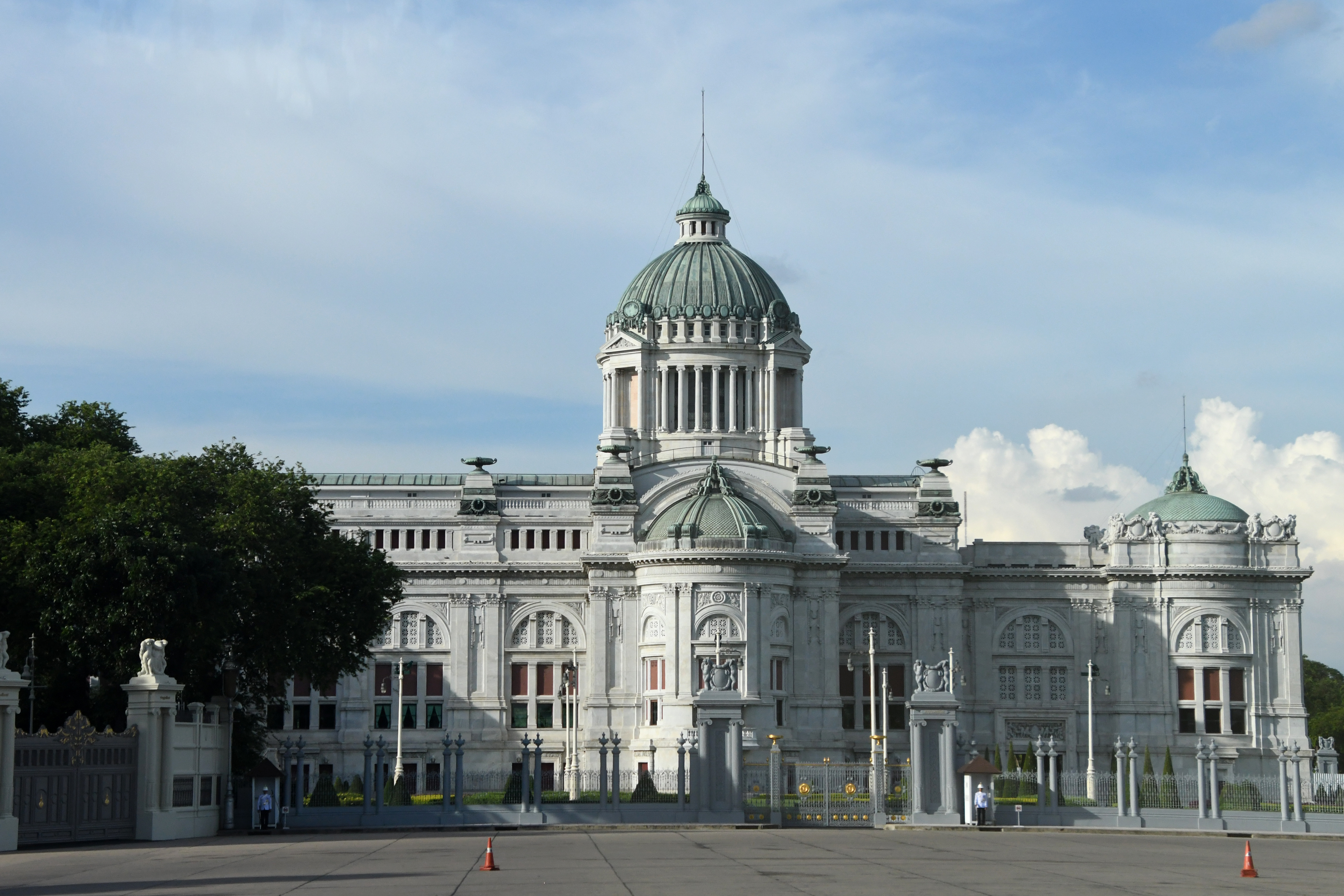 Daytime front view of the Ananta Samakhom Throne Hall in Bangkok, Thailand.